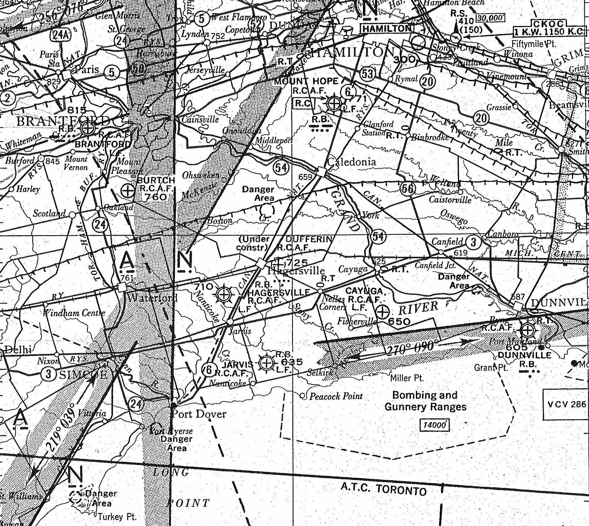 Fragment of 1942 Canadian Air Navigation Chart used by the Royal Canadian Air Force. The Jarvis air station and its bombing ranges can be clearly seen at centre bottom.